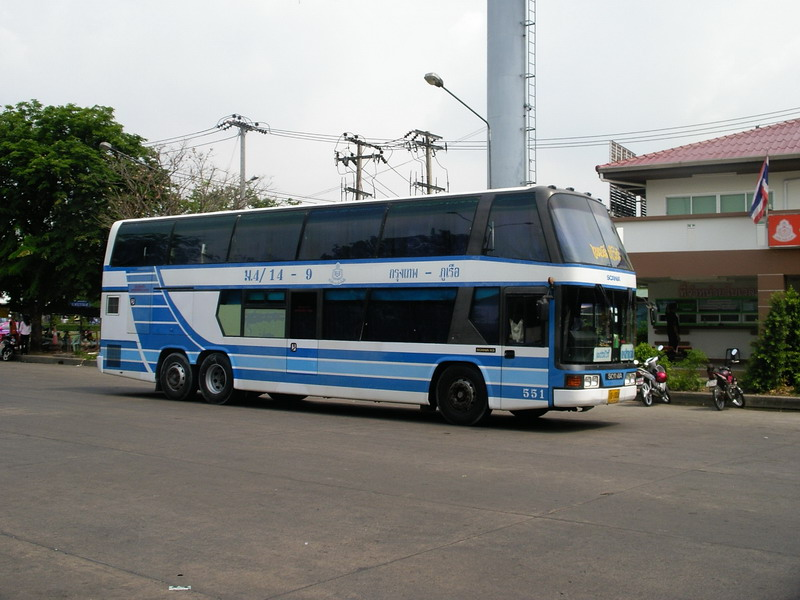 Neoplan Skyliner Double Decker Bus Lines Bangkok - Amphoe Phurua, Loei Province in Thailand, The Service By Phetprasert Tour.